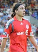 Cropped picture of footballer Pablo Vitti